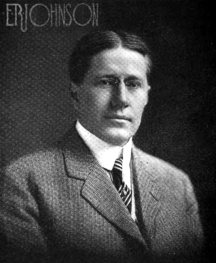 Eldridge R. Johnson, 1910